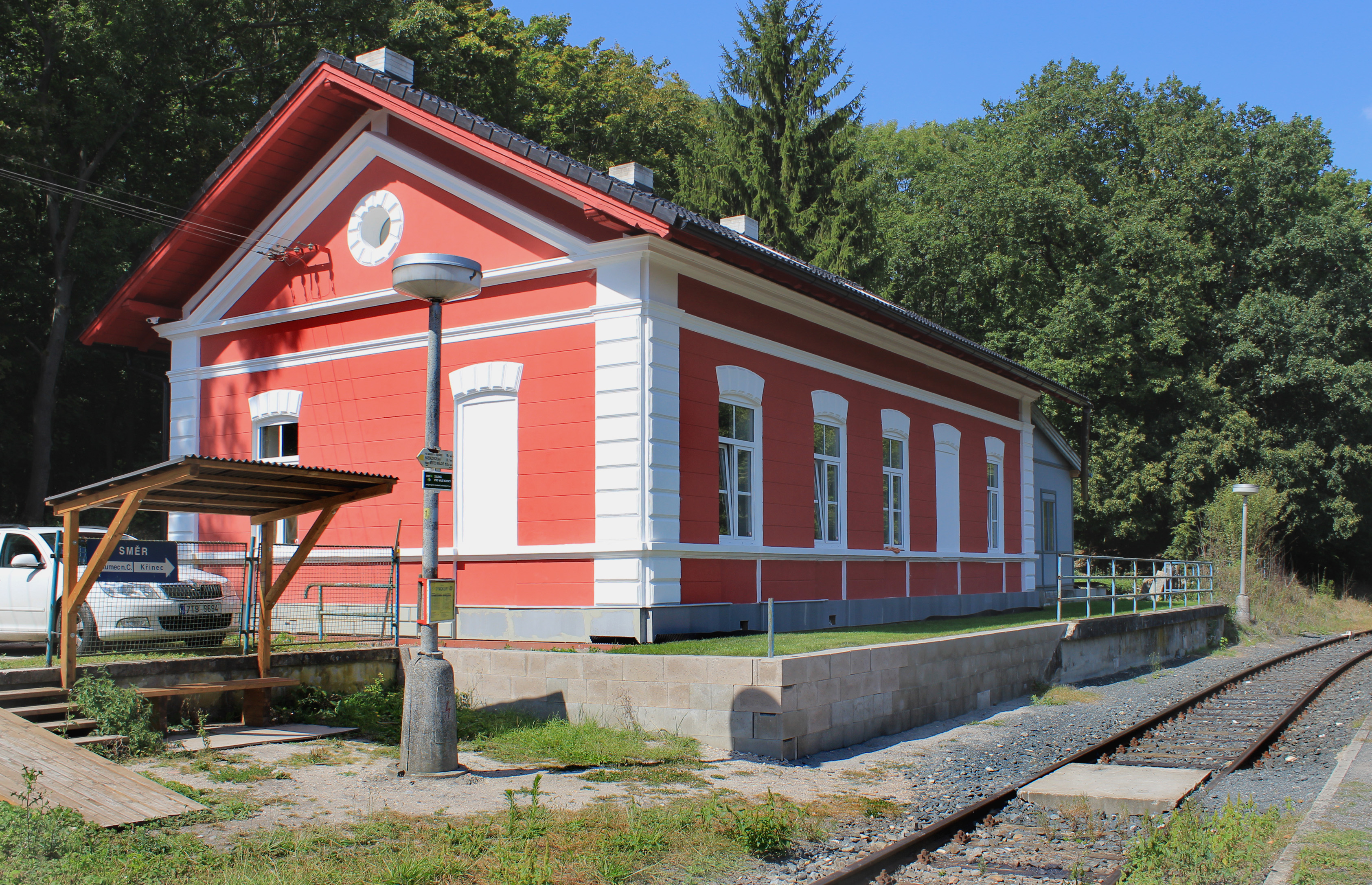 Train station in Dymokury, Czech Republic.